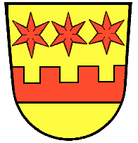 Coat of arms of Hauenstein in Laufenburg (Baden)